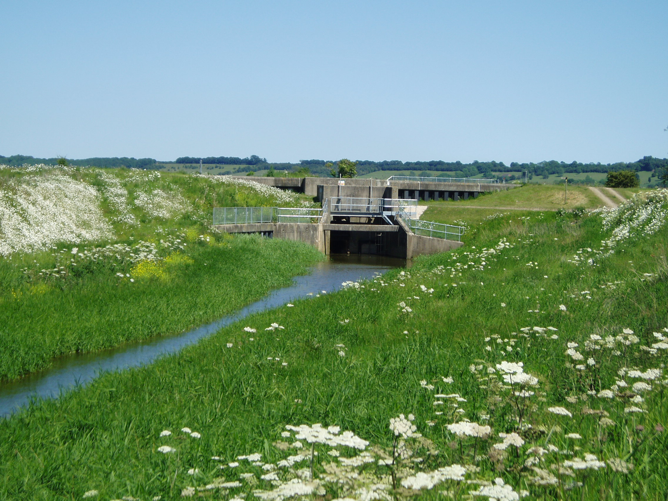 The outlet sluice to the Adlingfleet Drain, Adlingfleet, East Riding of Yorkshire, England.